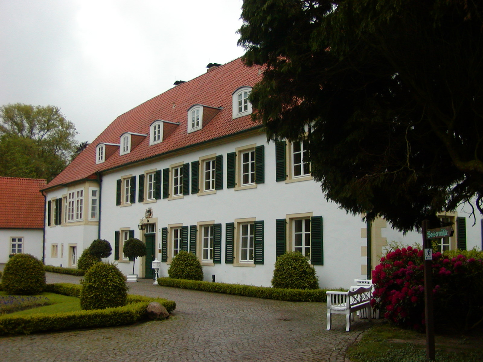 The former masters' building of Hudenbeck castle is now the tourist information of Bad Holzhausen, town of Preußisch Oldendorf, Germany.